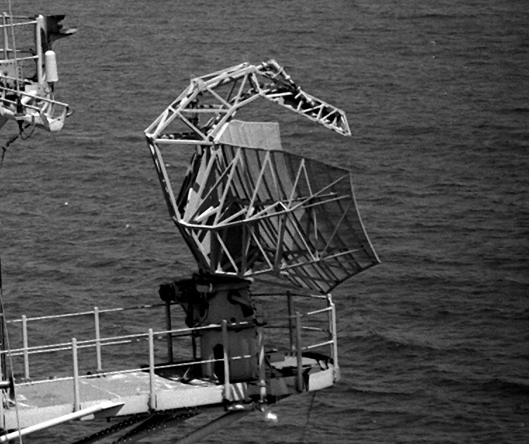 Cropped focusing on AN/SPS-40 antenna. A close-up view from off the starboard side of the amphibious transport dock USS Raleigh (LPD-1) of the ship's SPS-10 surface search radar, center, and the larger SPS-40 air search radar, right.